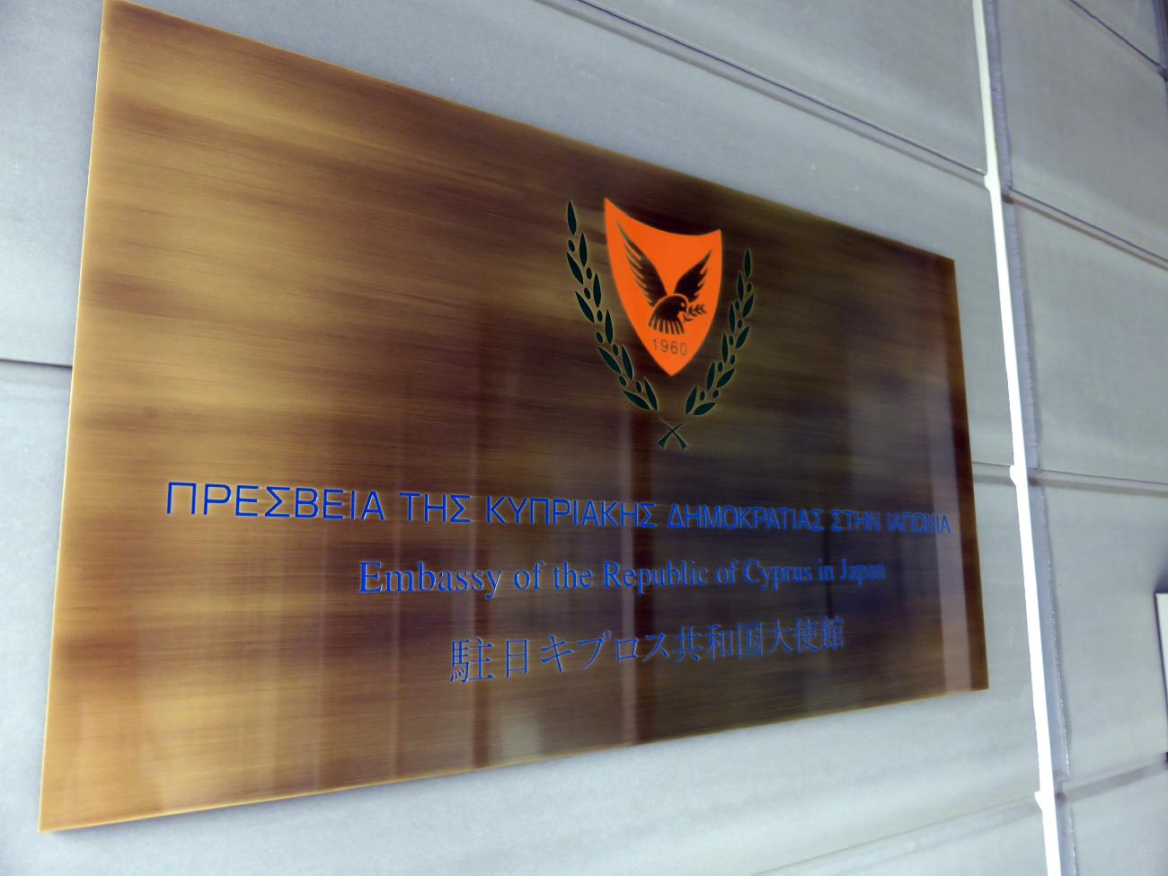 Plaque of the Embassy of Cyprus in Tokyo, Japan